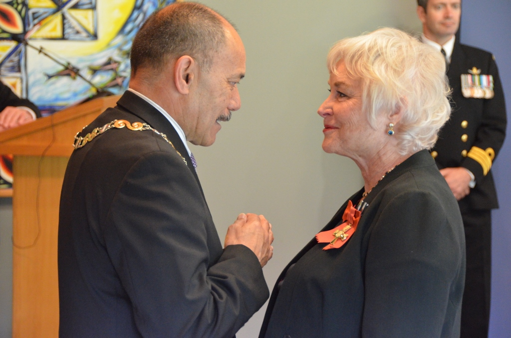 Lisa Harrow, of the United States of America, received the insignia of an Officer of the New Zealand Order of Merit for services to the dramatic arts, from the governor-general, Sir Jerry Mateparae, on 6 May 2015.